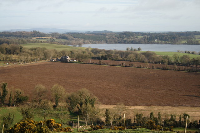 Ploughed fields. Fields scape overlooking the NW end of Lough Owel.